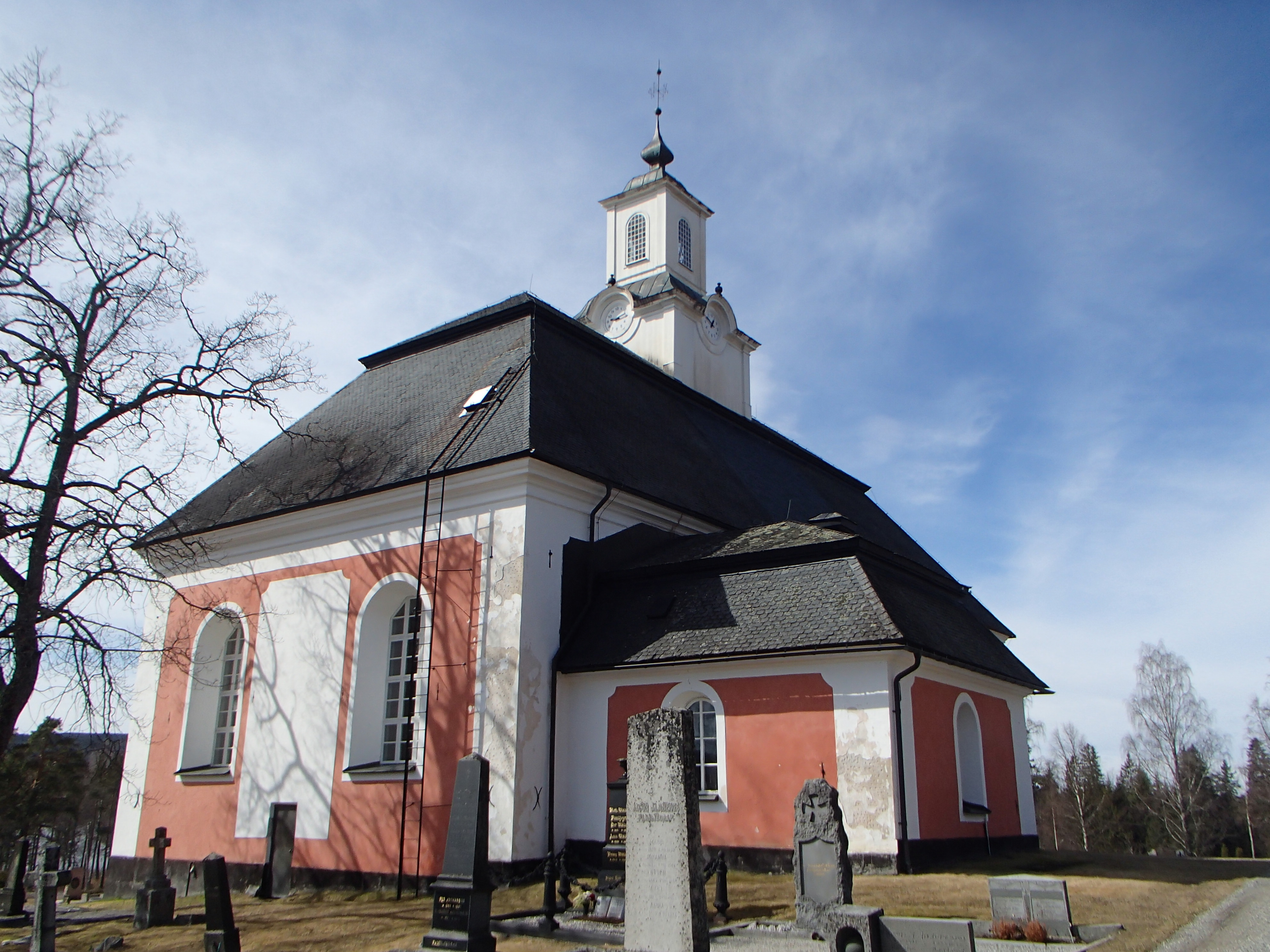 The church building of "Borgsjö kyrka" at Borgsjö in Ånge Municipality